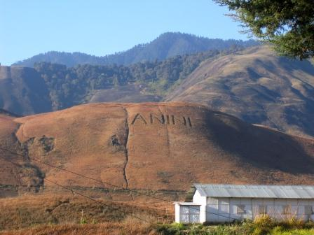 Picture of Anini town